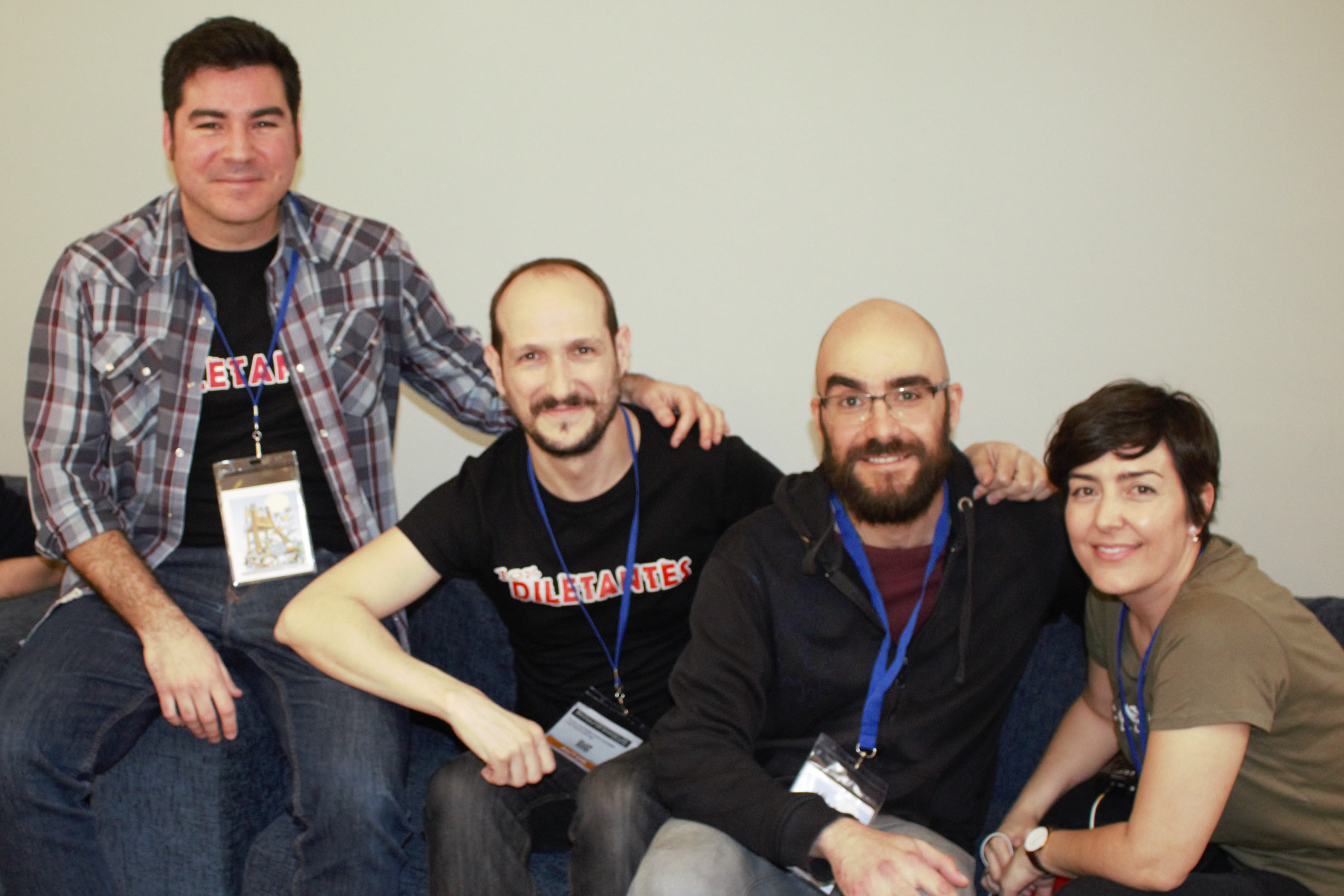 The authors of the fanzine "Los Diletantes": David Tapia, Juan Ros and Óscar Sanz, together with Laura Barrachina, announcer of the radio programme about comic "La hora del bocadillo" of Radio 3.